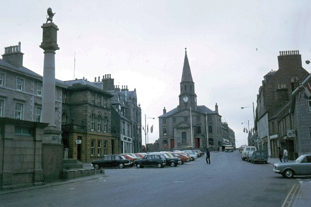 Broad Street, Peterhead